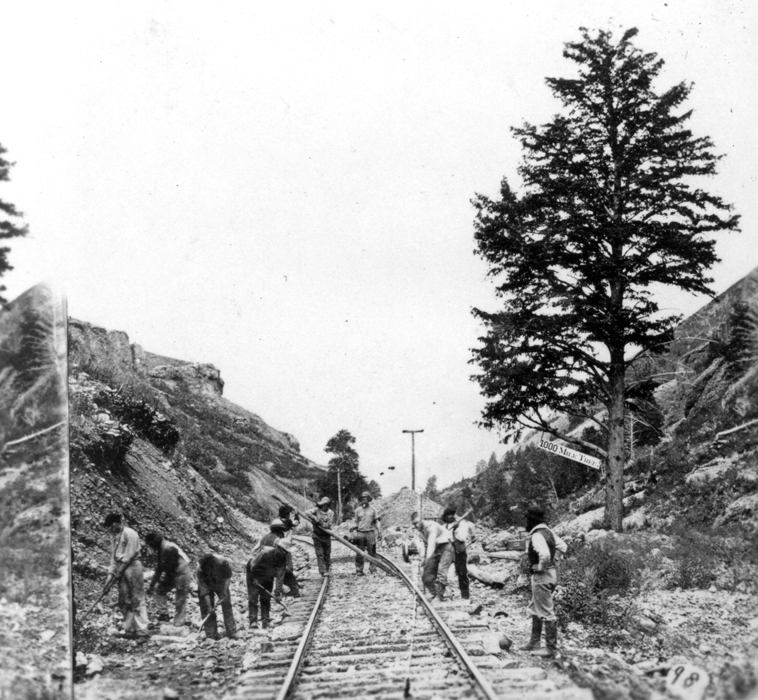 The 1,000-mile Tree, a solitary pine in Wilhelmina Pass, or the narrows of Weber Canyon, marking the 1,000th mile west of Omaha on the First Transcontinental Railroad construction by the Union Pacific Railroad. Weber County, Utah. 1869.